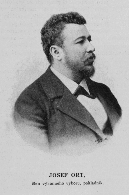 Portrait of Josef Ort (1856-1902), Czech accountant that defrauded Svatováclavská záložna (St Wenceslas Cooperative Bank). Cropped from a gallery of board members of Czech and Slavonic Ethnographic Exhibition 1895.